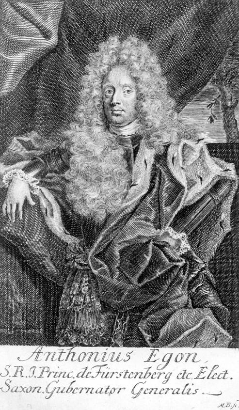 Anton Egon von Fürstenberg (1656-1716) cabinet minister (Electorate of Saxony)